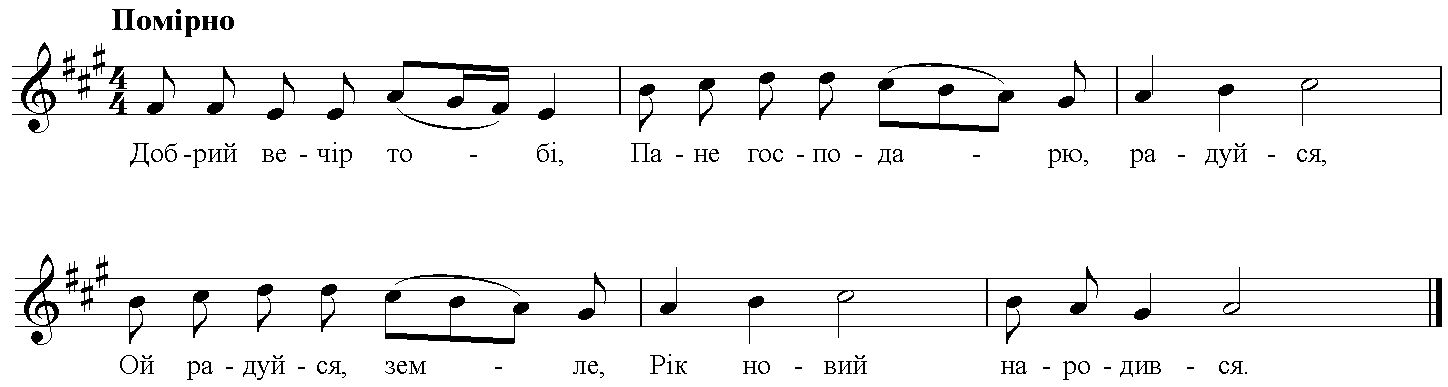 Ukrainian people's song "Добрий вечір тобі, пане господарю"